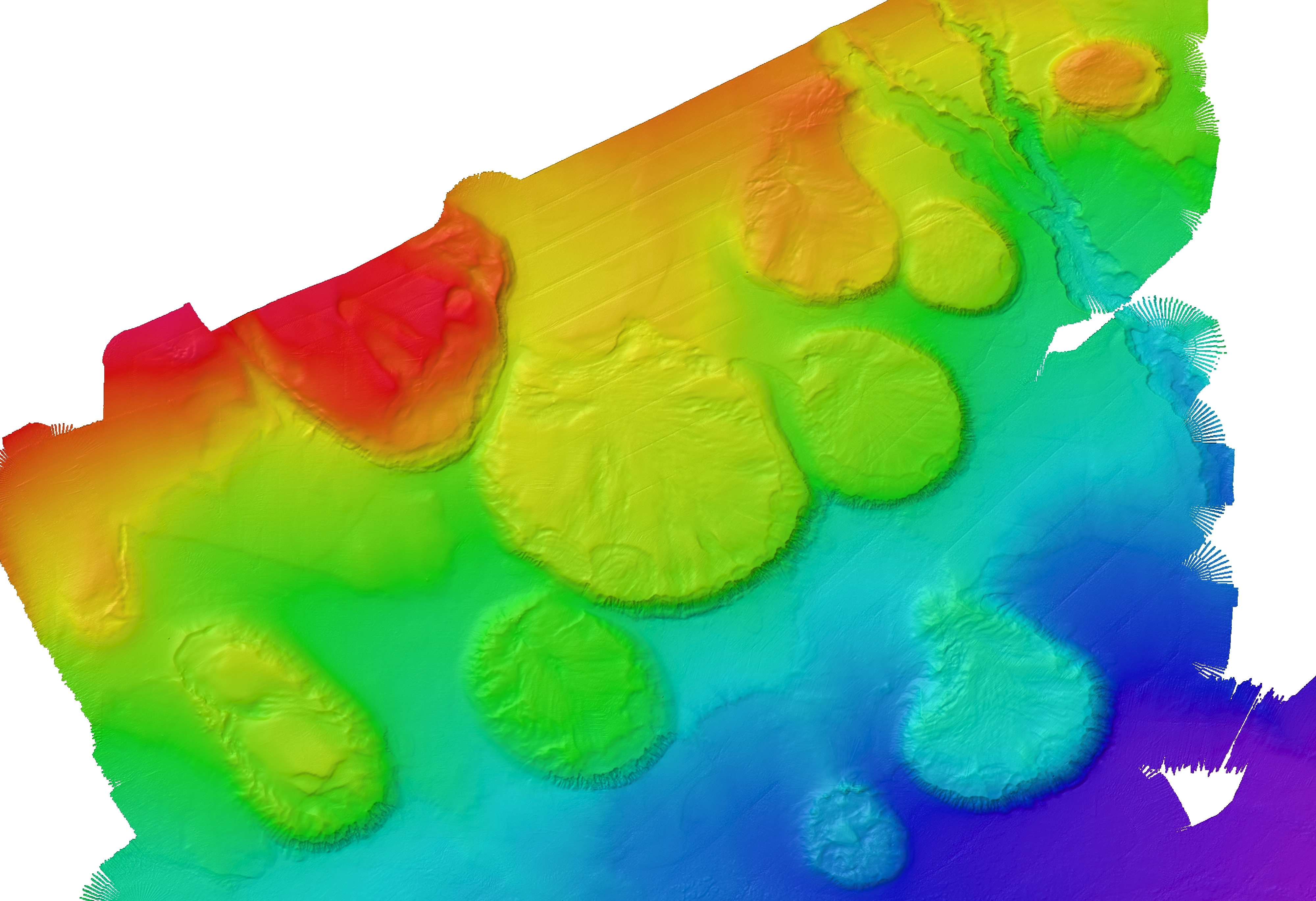 The "Mickey Mouse Salt Domes" as they were called by Paul Grim of NOAA's EEZ mapping program in 1989. These domes were first surveyed by the NOAA Ship MT. MITCHELL, the largest dome being named Mitchell Dome for the ship. Whiting Dome, named for the NOAA Ship WHITING is the large dome to the NW. These are among the largest salt domes in the Gulf of Mexico. Image ID: map00365, Voyage To Inner Space - Exploring the Seas With NOAA Collect Location: Gulf of Mexico Photo Date: 2011 Credit: NOAA Ship OKEANOS EXPLORER Gulf of Mexico Expedition 2011